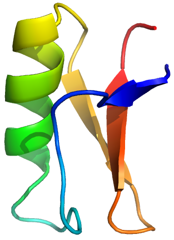 Cartoon representation of the molecular structure of peptide drosomycin, registered with 1myn code.